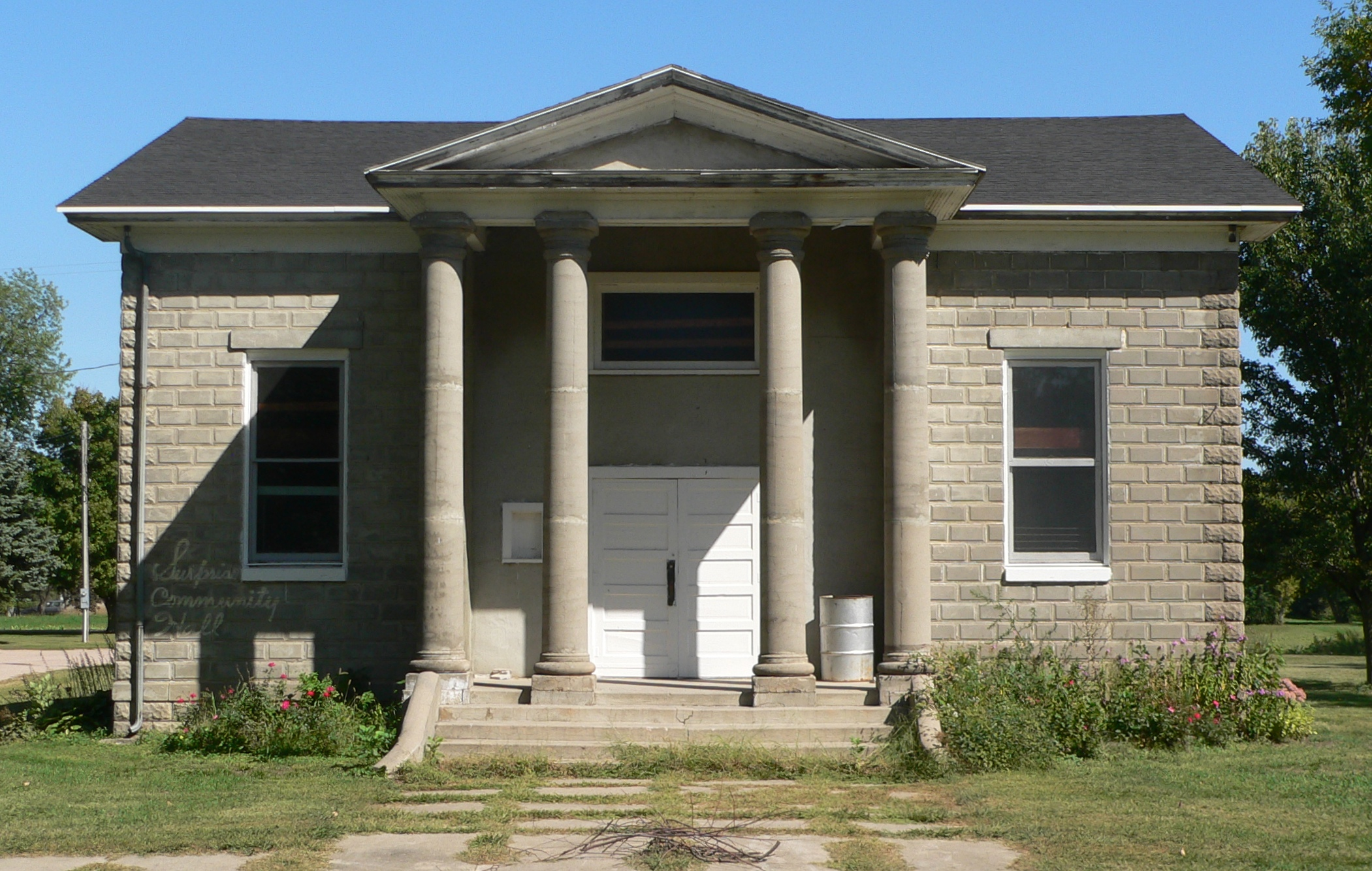 Surprise Opera House, located at the southeast corner of River and Miller in Surprise, Nebraska; seen from the west.